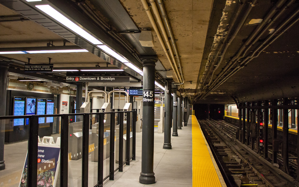 Renovated West 145th Street Station on the IRT Lenox Avenue Line.